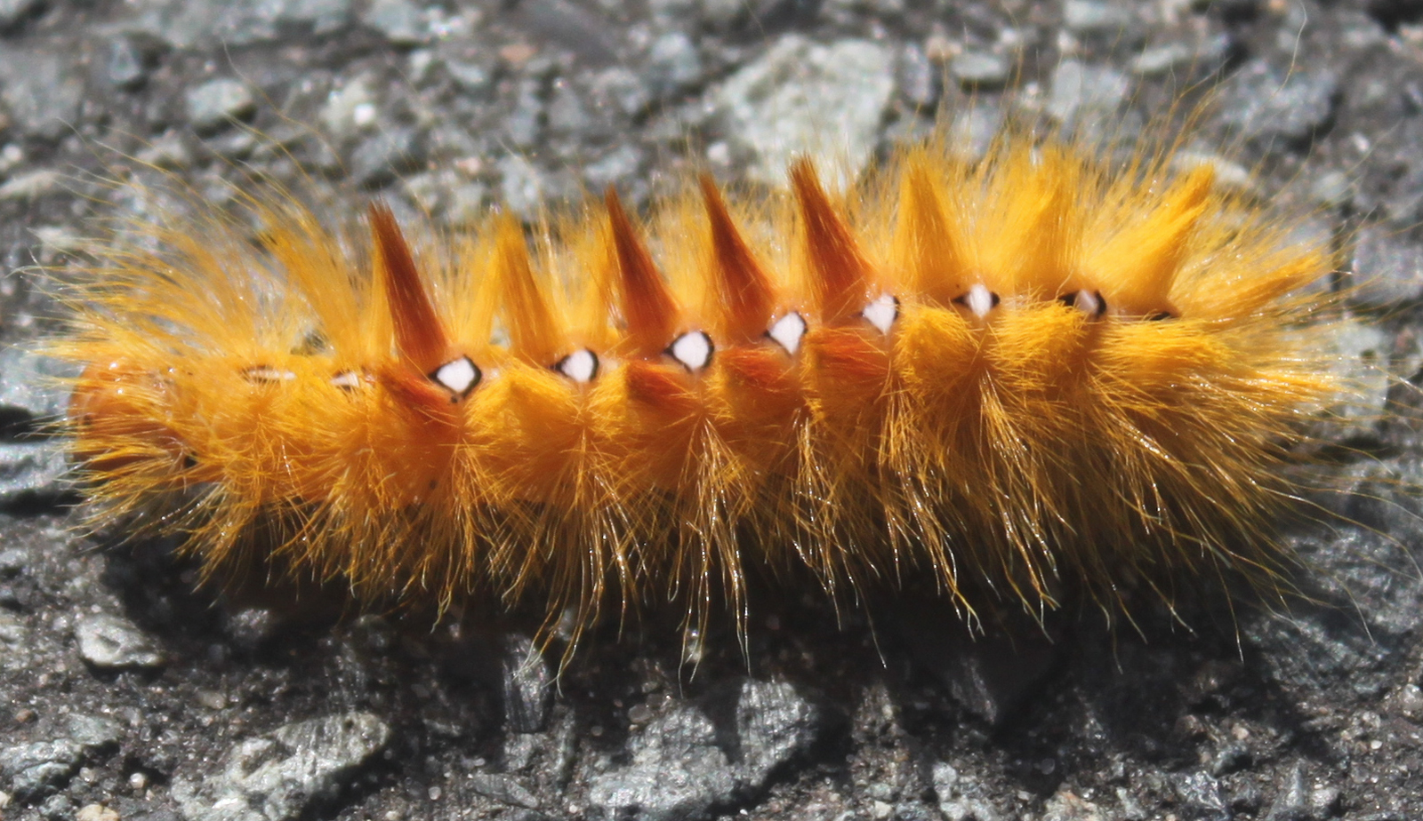 Caterpillar of the sycamore (Acronicta aceris)